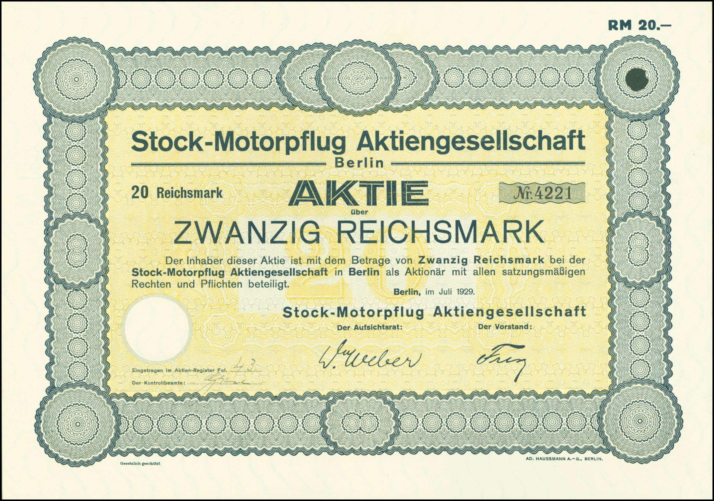 Share of the Stock-Motorpflug AG, issued July 1929